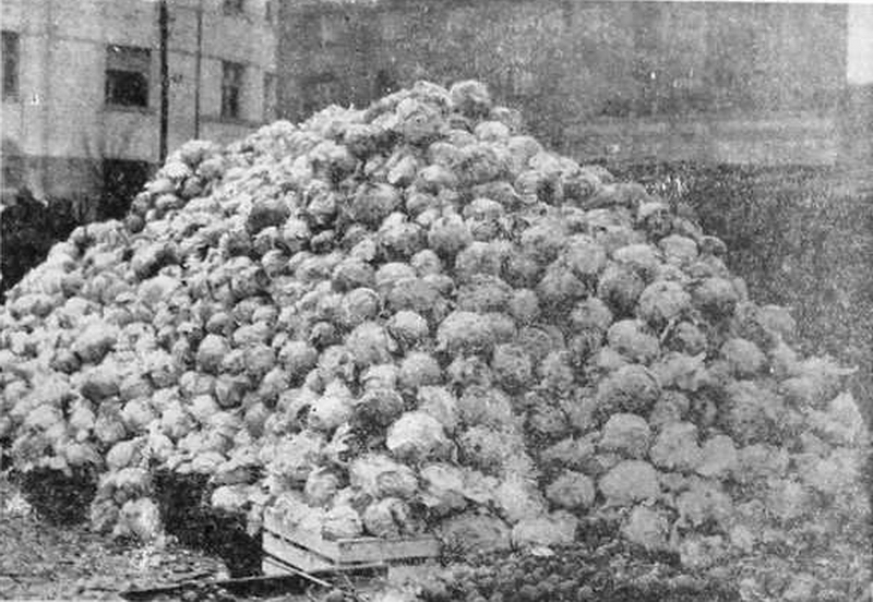 Bajloni market place, photo from 1940, publish in Vreme, 29. November 1940. Srpski (latinica): Pijaca Bajlonijeva, publikovano u Vreme, 29. novembar 1940, članak Veliki dovoz kupusa.